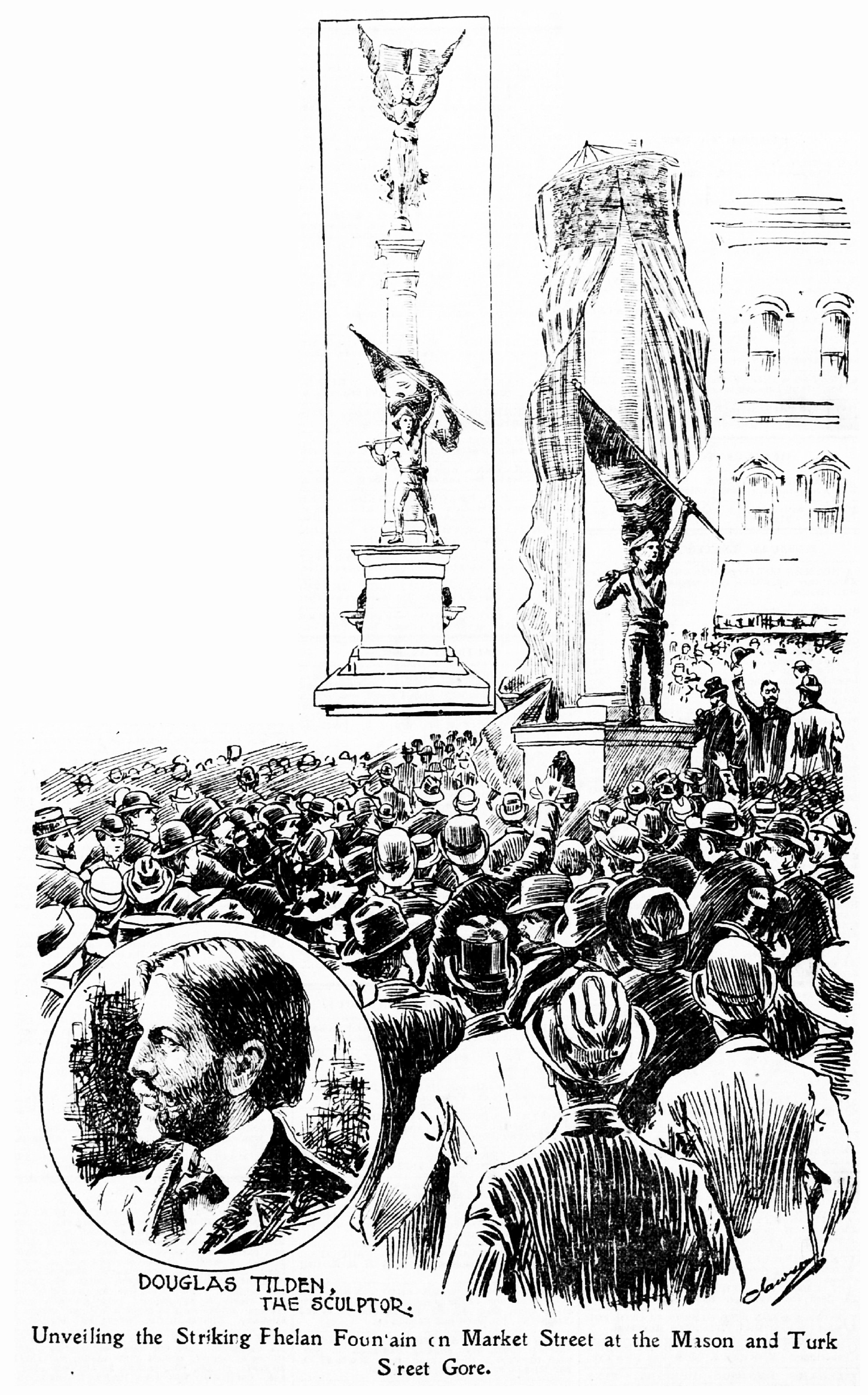 Caption: Unveiling the Striking Phelan Fountain on Market Street at the Mason and Turk Street Gore.